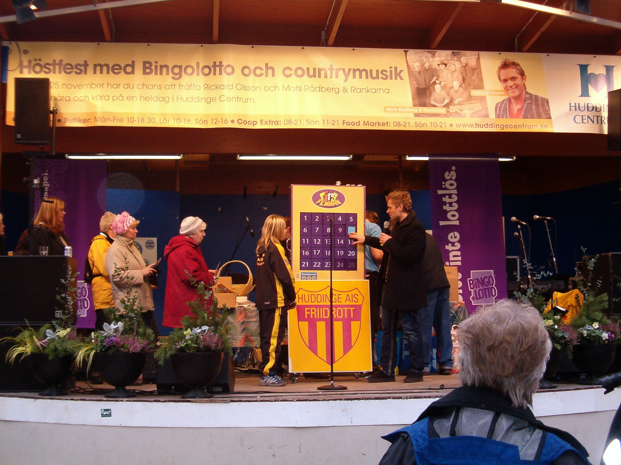 BingoLotto have a show in Huddinge.